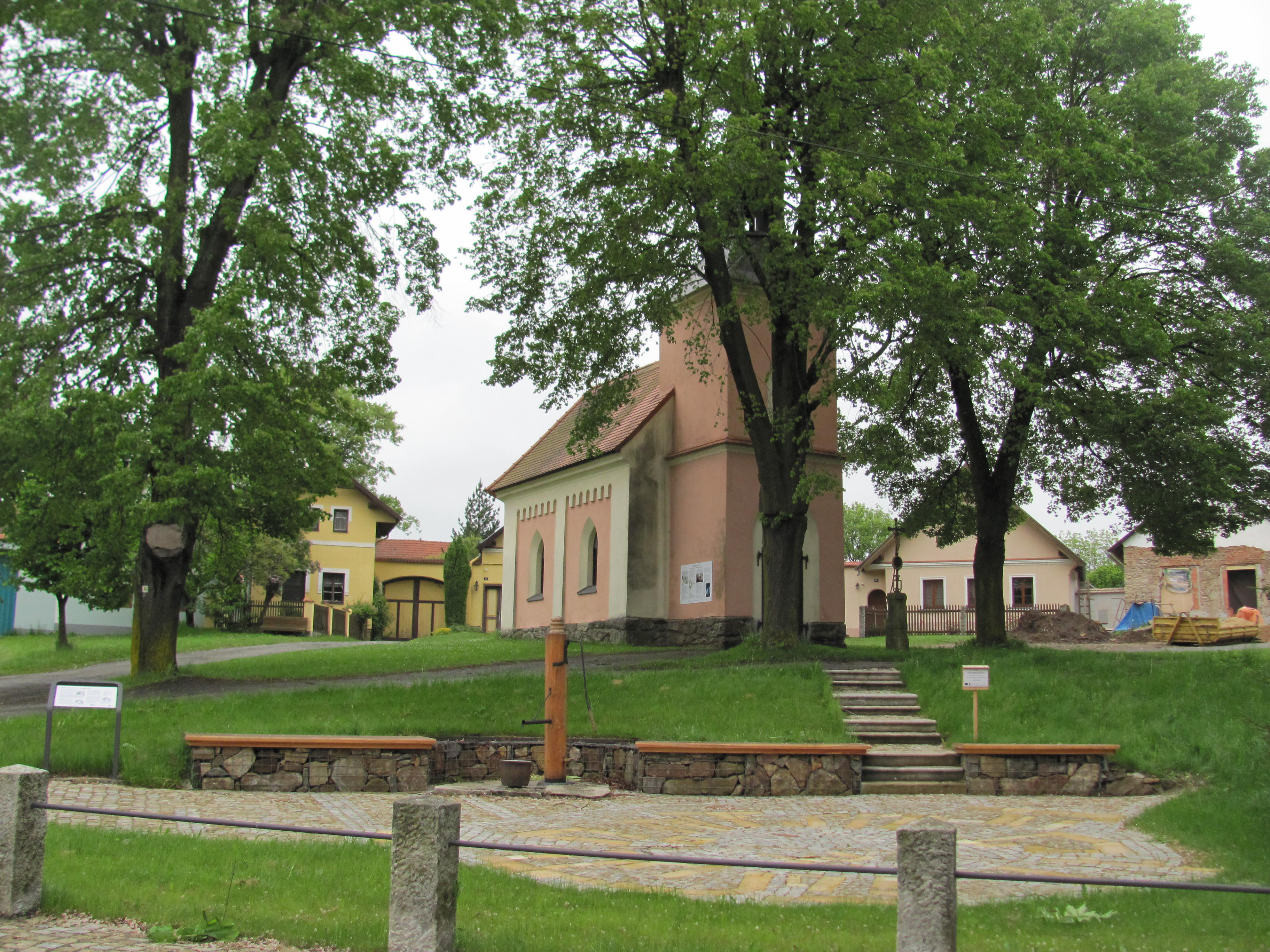 Stanovice, part of Nová Cerekev, Pelhřimov district